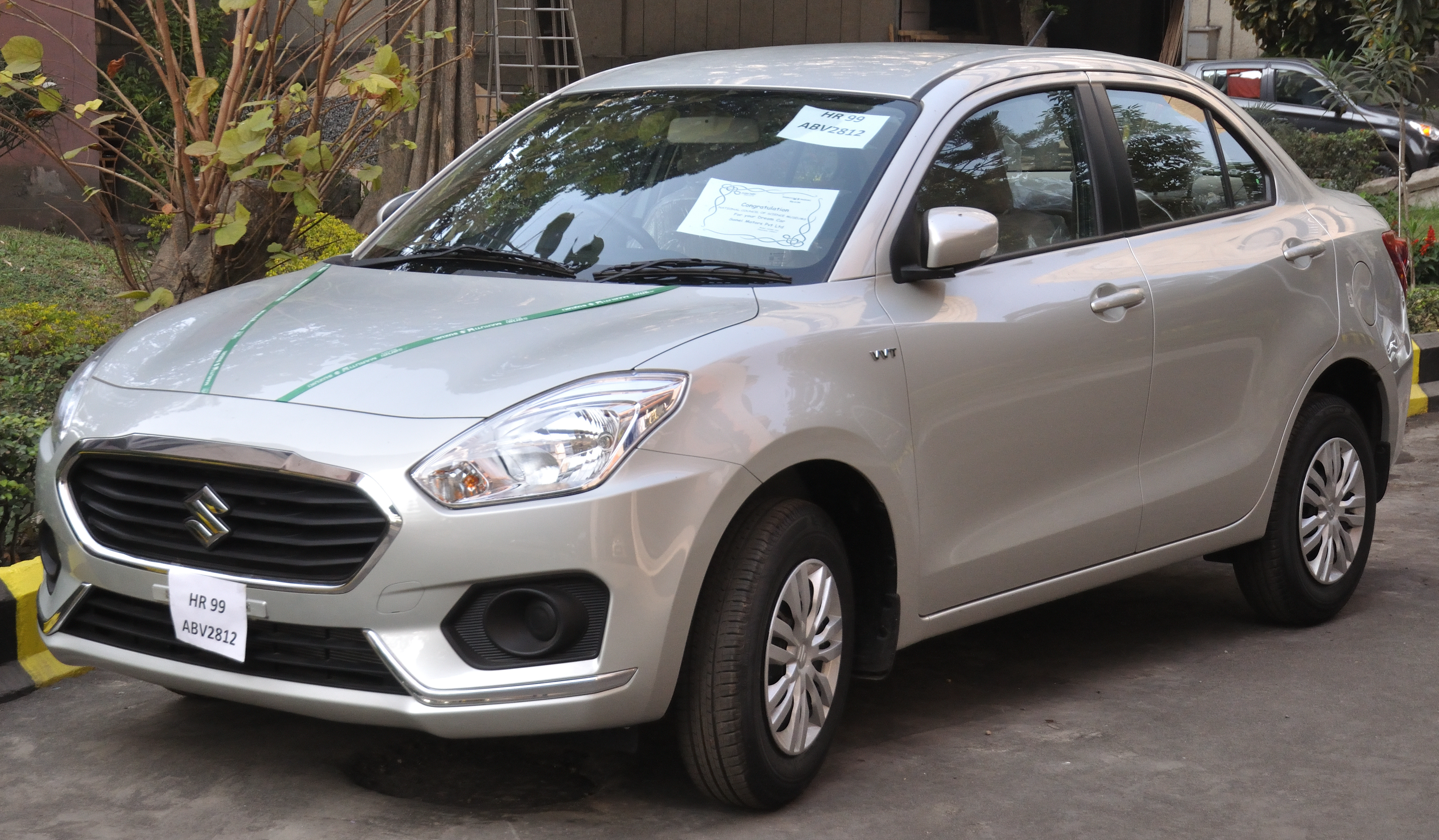 This photograph was taken in West Bengal.